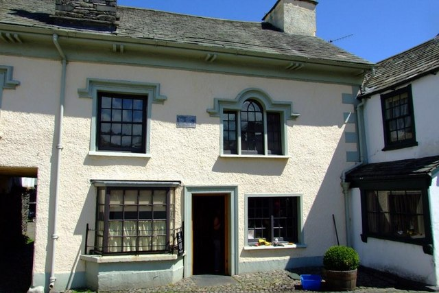 The Gallery